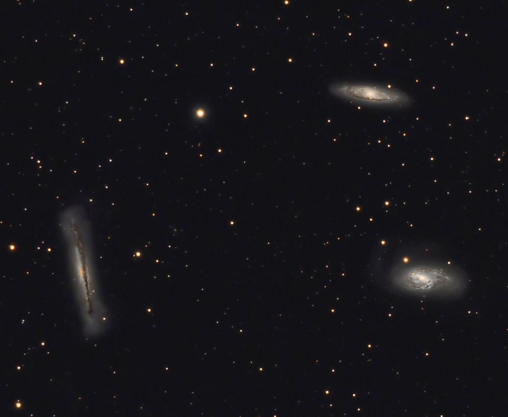 Leo Triplet of Galaxies